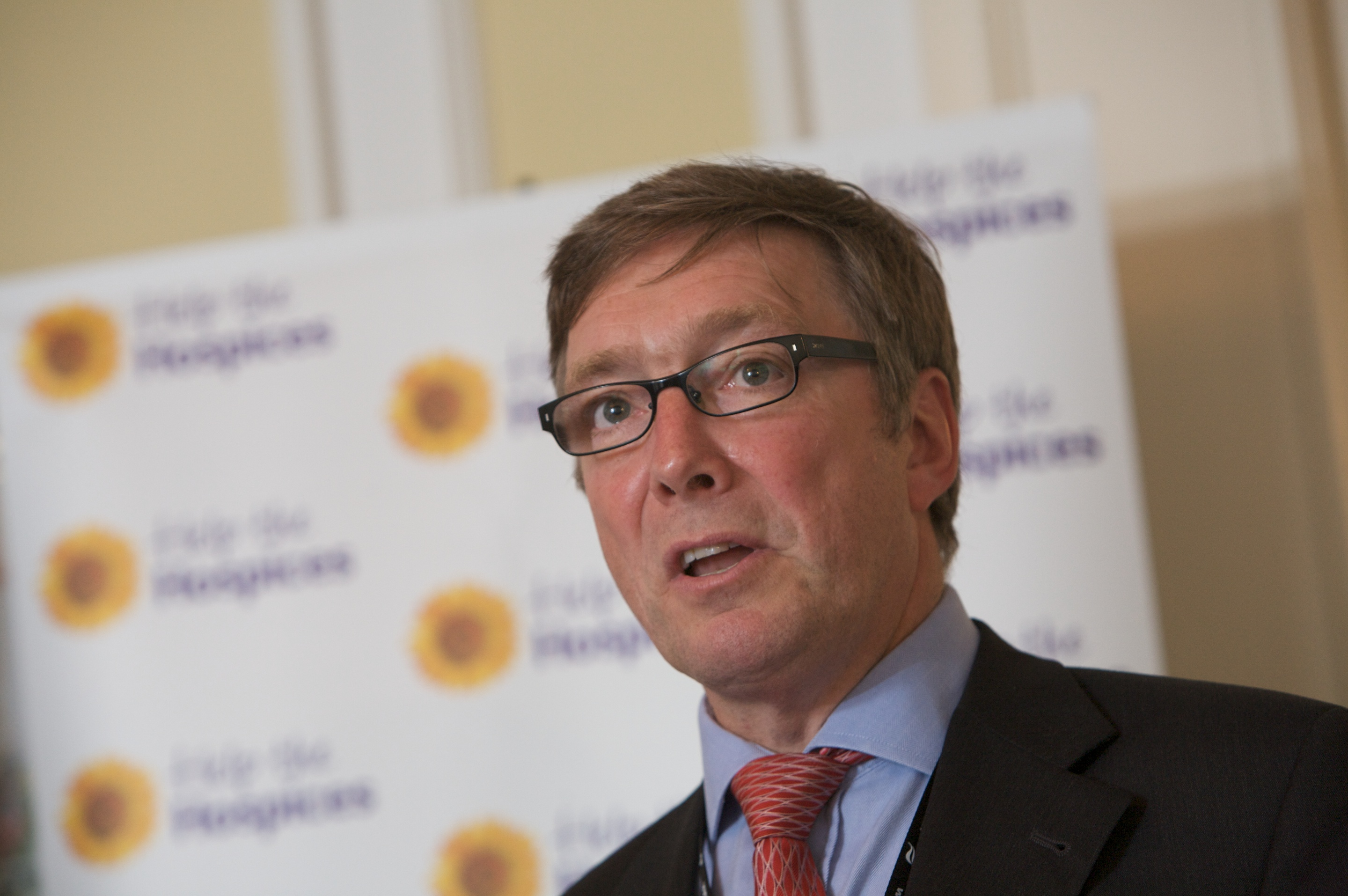 Phil Hope, British politician and Minister of State for Health, speaking at the Health Hotel session "Personalising care: the choices we face" at the Hilton Metropole, Brighton, during the Labour Party Conference 2009.